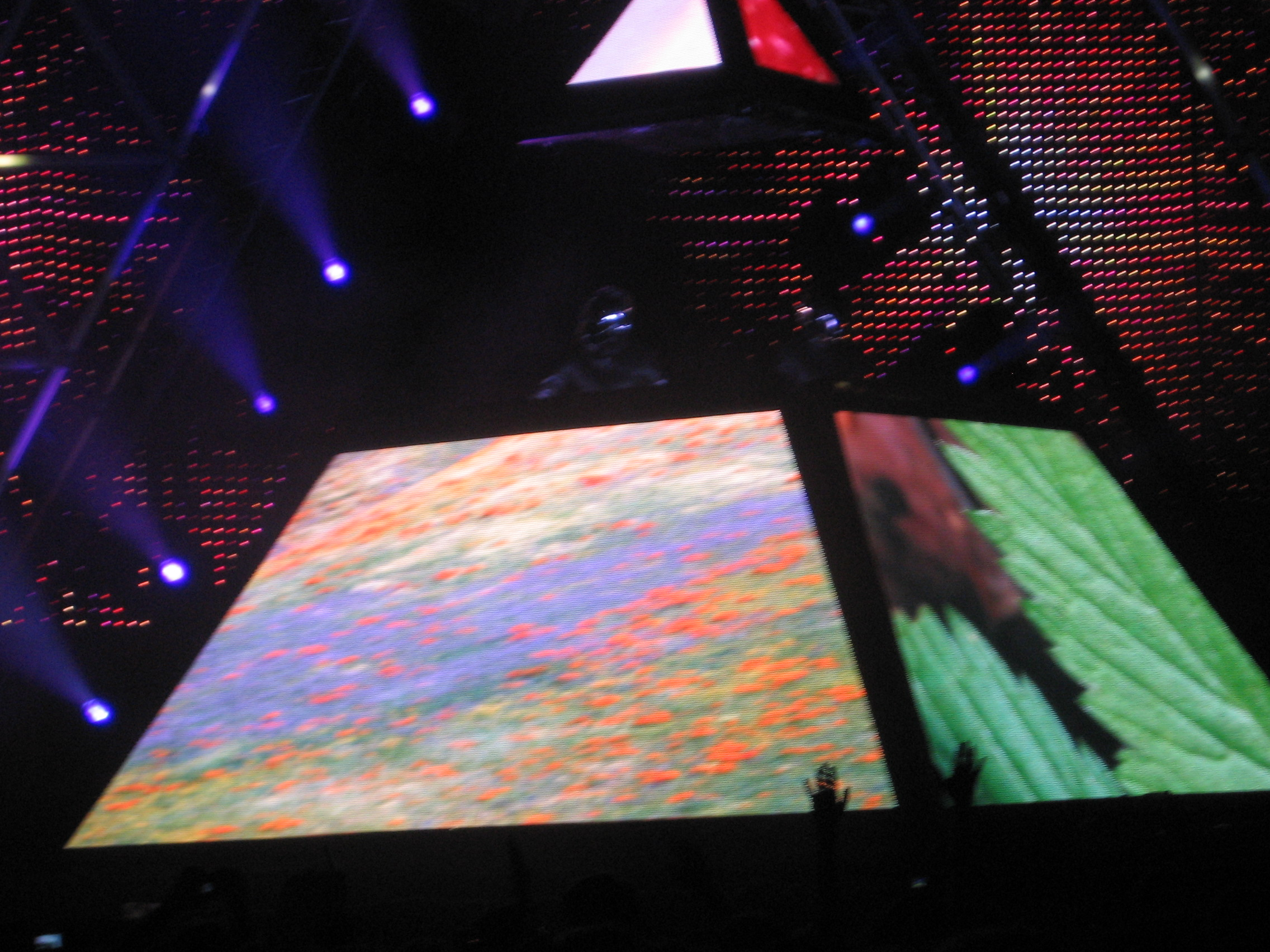 Daft Punk Concert at Traffic 2007 in Turin